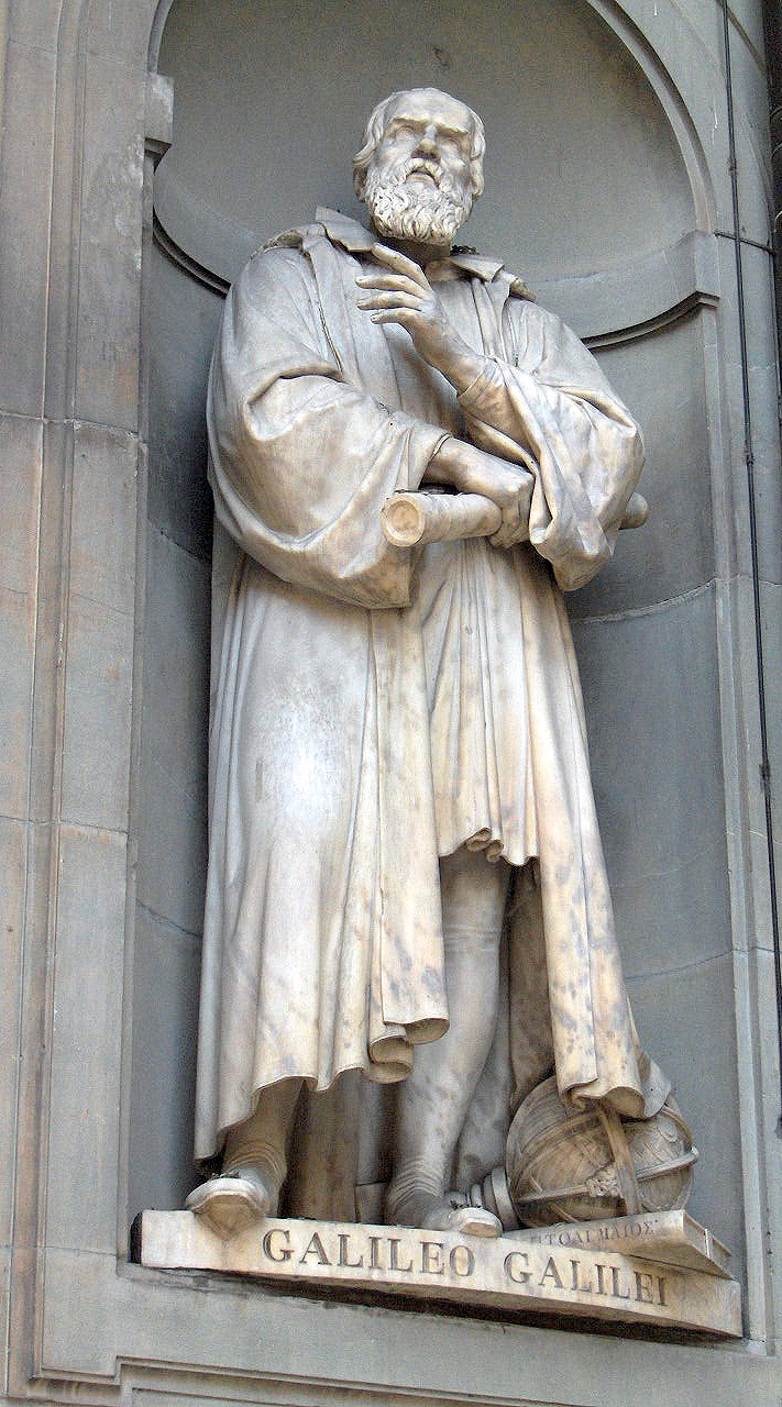 Statue of Galileo Galilei (1564-1642); outside of the Uffizi, Florence.